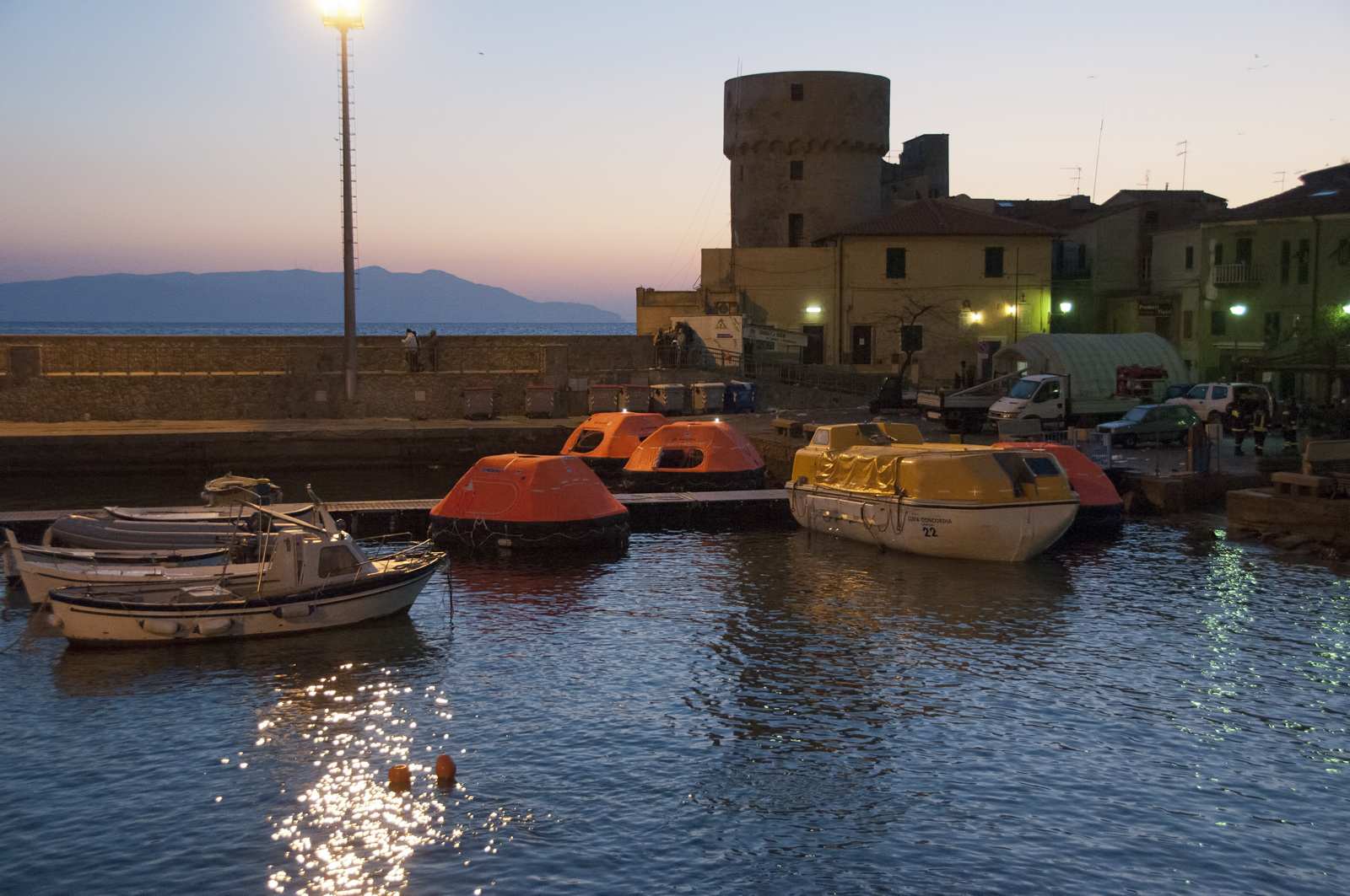 Collision of Costa Concordia - The lifeboats moored in port after their use to abandon the ship.